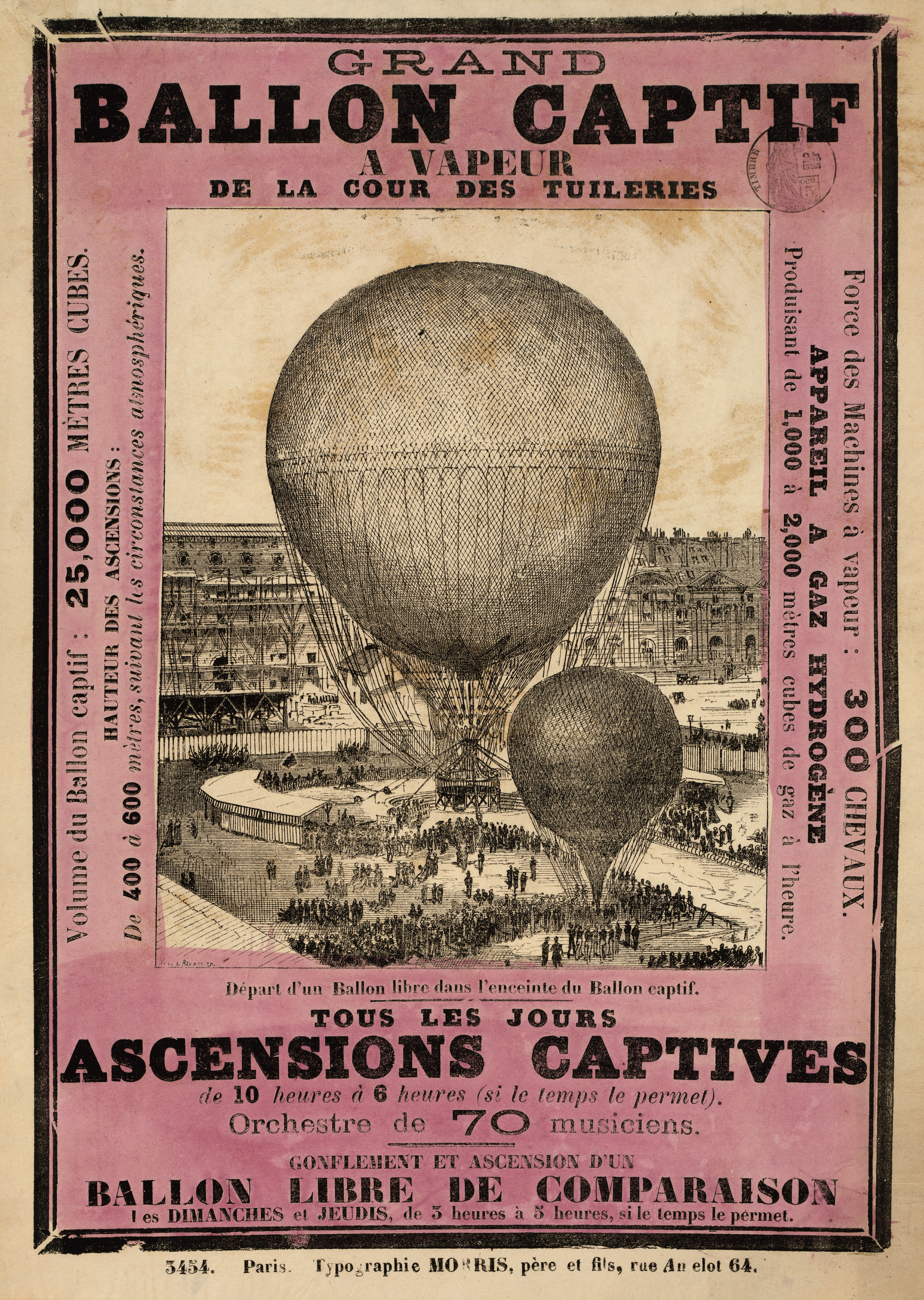 Hand-colored broadsheet announcing the ascension of Henri Giffard's giant captive balloon from the courtyard of the Tuileries, probably during the Paris Exposition of 1878. Includes picture of the giant balloon stationed in the center of the courtyard next to a smaller balloon. Text: Grand ballon captif a vapeur de la cour des Tuileries. Depart d'un ballon dans l-enceinte du ballon captif. Tous les jours ascensions captives de 10 heures a 6 heures (si le temps permet). Orchestre de 70 musiciens. Gonflement et ascension d'un ballon libre de comparaison, les Dimanches et Jeudis, de 3 heures a 5 heures, si le temps permet.